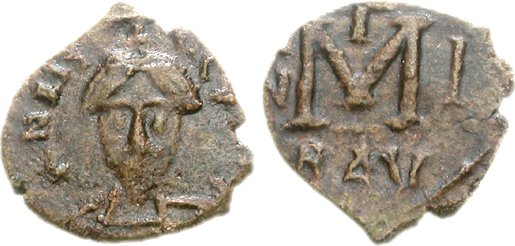 Lombards: Lombardy. & Tuscany. Aistulf. 749-756. Æ Follis (1.43 g, 6h). Ravenna mint. Struck 751/2. [D] N IST VLF[VS REX], facing crowned and draped bearded bust, holding globus cruciger in right hand; crown topped with cross Large M; cross above, [A]/N/N/[O] I across field, RAV below. Bernareggi -; Ranieri 848 (same obv. die as illustration); BMC Vandals -; MEC 1, 324. Good VF, red-brown patina. Very rare. Appointed Duke of the border Duchy of Friuli when his brother Ratchis became king of the Lombards in 744, Aistulf himself became king in 749 when Ratchis was forced to abdicate. During his tenure, Aistulf attempted to expand Lombardic interests in Italy by raiding both the Byzantine exarchate of Ravenna and the territories of the papacy. In 751, the Lombards took Ravenna and began to pressure Rome. In response, Pope Stephen II turned to the de facto Frankish king, Pepin 'le Bref' (the Short) for assistance. In return for a pontifical recognition of his crown, Pepin crossed the Alps, defeated Aistulf, and forced the Lombardic king to relinquish those territories he had extracted from the papacy. Now, much reduced, Aistulf spent the remaining few years of his reign in the pursuit of pleasure. In 756 he was killed in a hunting accident. With his death, the Lombardic kingdom lost even more territory and influence in Italy in the face of an increasing alliance between the papacy and the Carolingians.